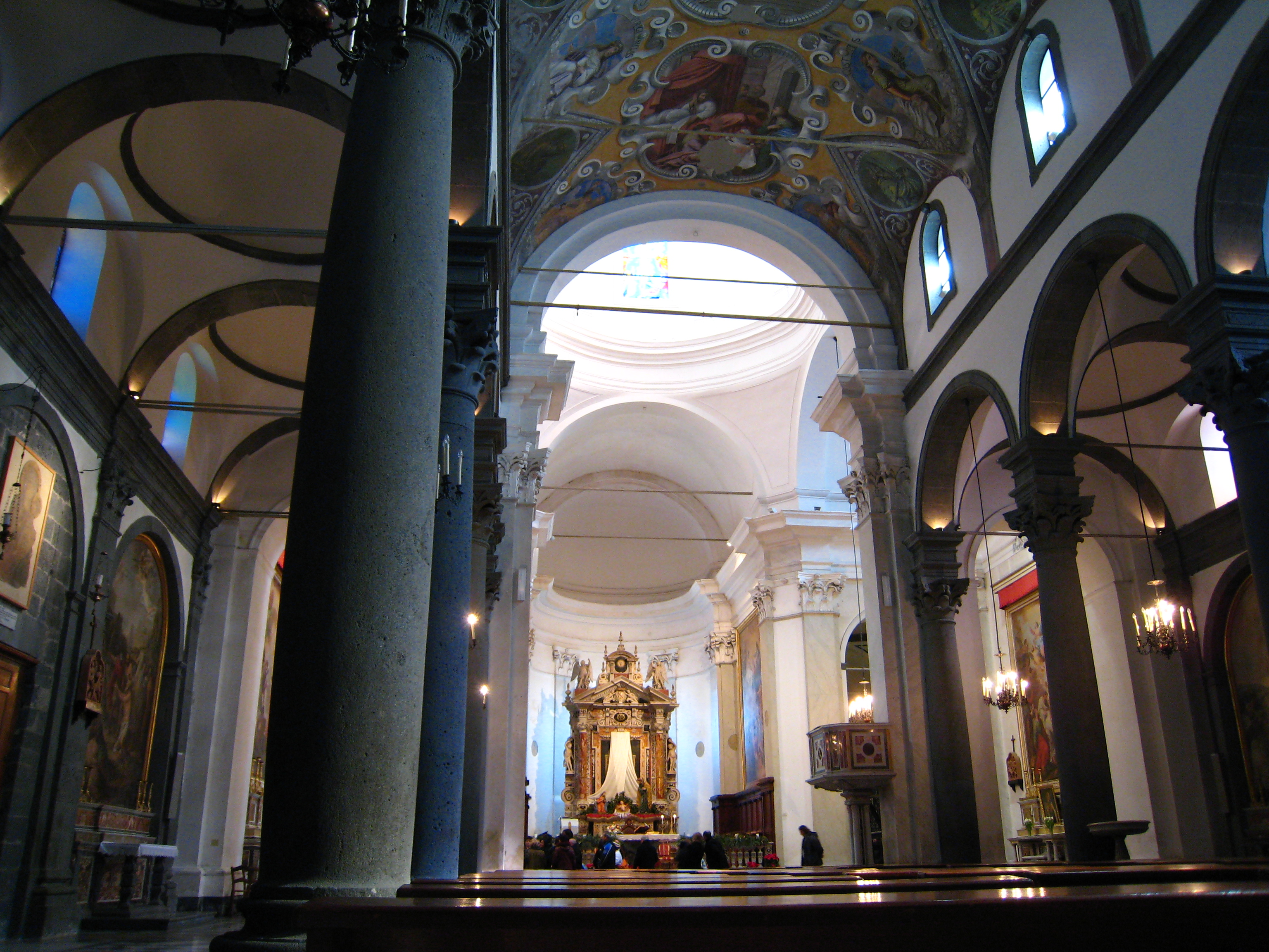 Cathedral of Santa Maria